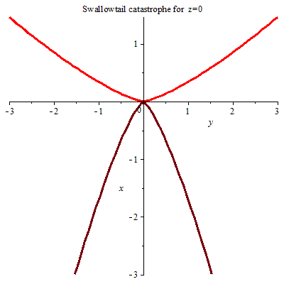 Swallowtail integral catastrophe for z=0